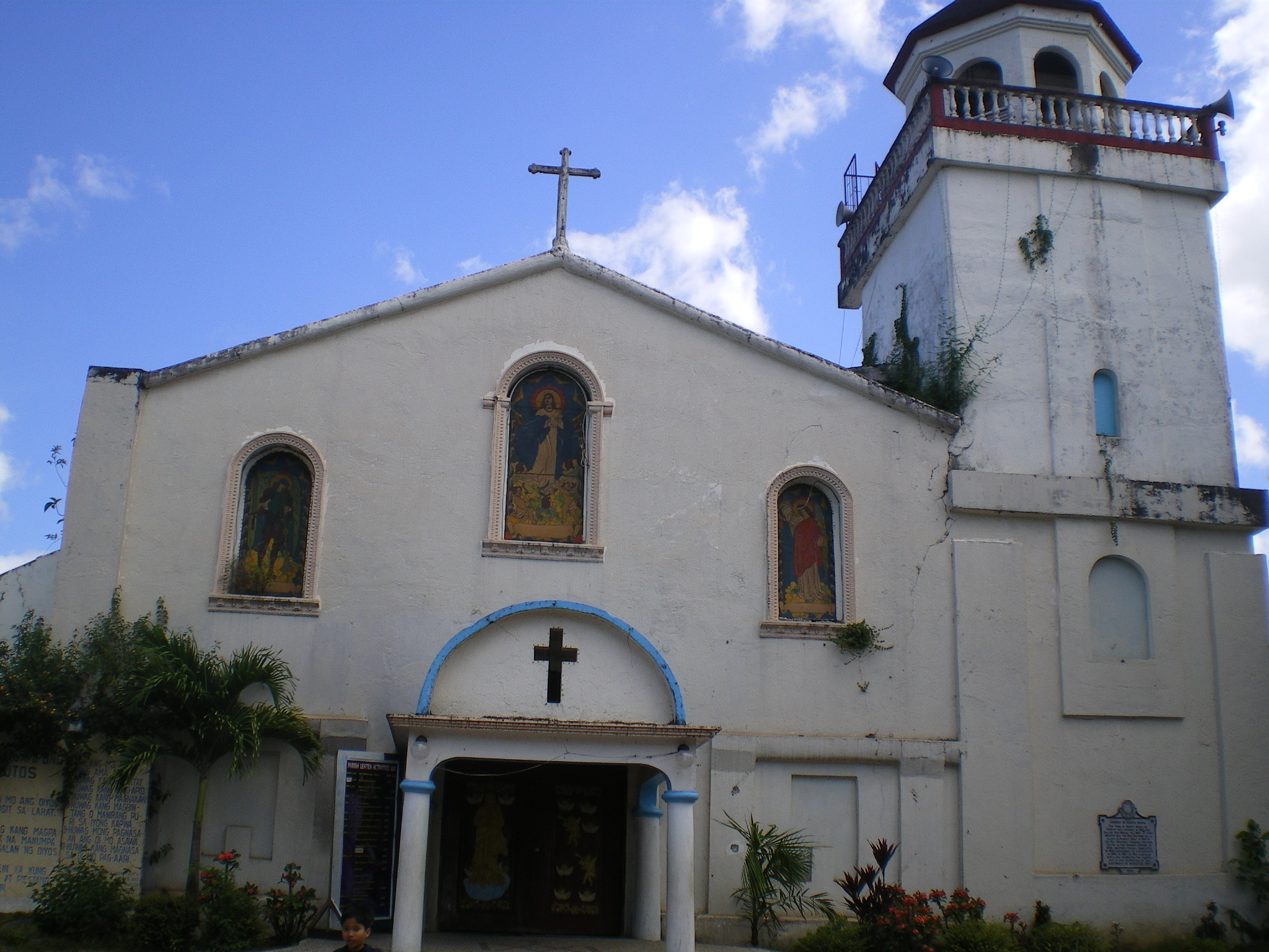 Sta Maria,Laguna Catholic Church